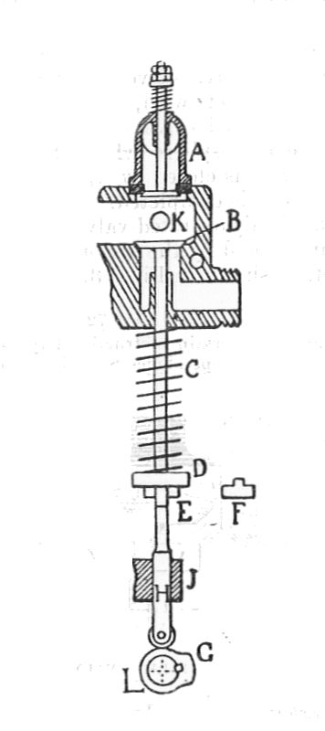 Automatic inlet and camshaft-driven exhaust valves (Army Service Corps Training, Mechanical Transport, 1911).jpg